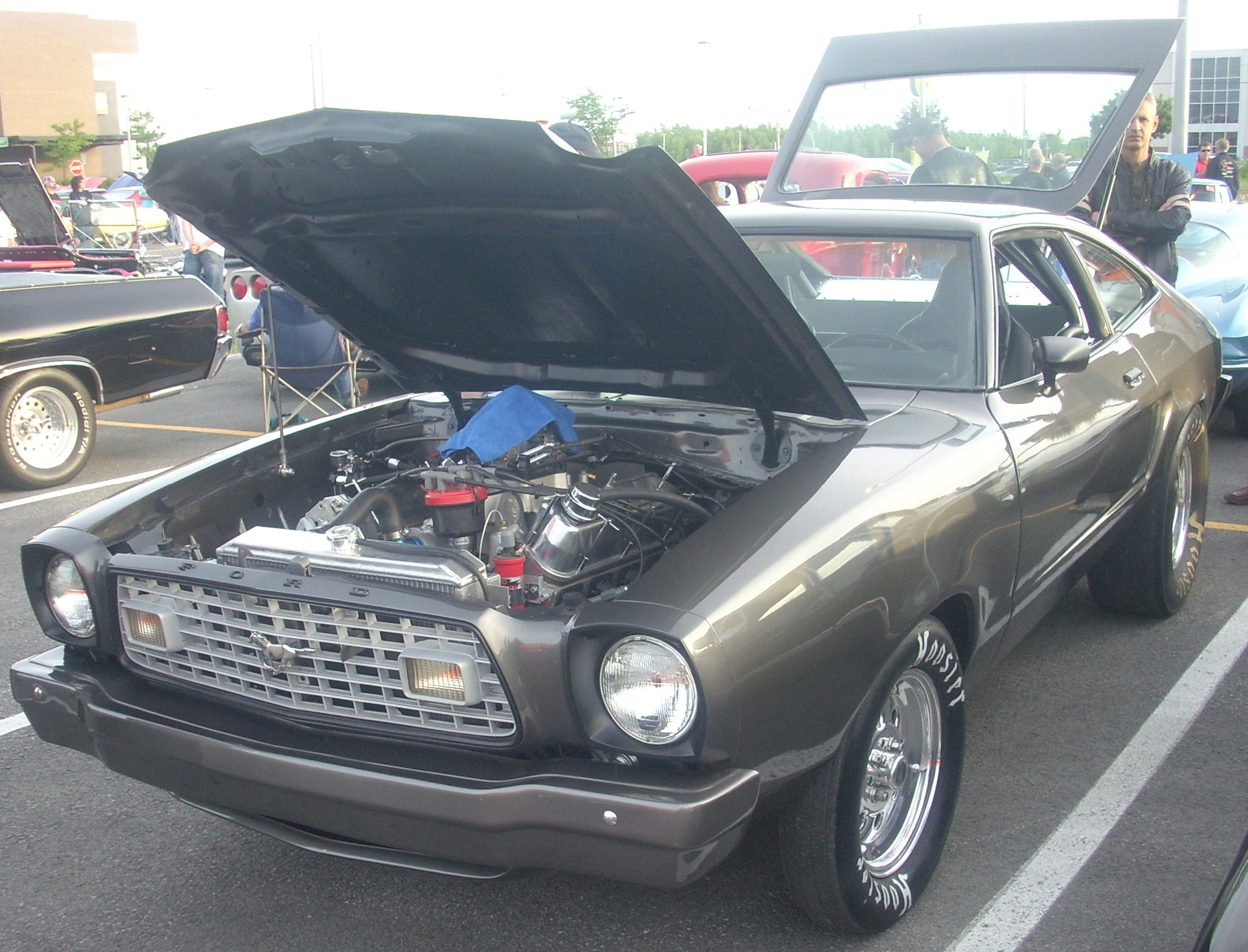 Ford Mustang photographed in Laval, Quebec, Canada at Centropolis Laval.